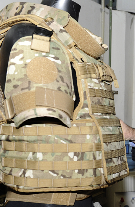 Kibbutz Sasa saves the lives of countless American troops with its advanced armor technologies. Ambassador Shapiro saw this first hand on January 30 when he visited the Plasan factory in northern Galilee. The Ambassador saw the full range of products, from reactive armor, to purpose built vehicles, to body armor. Plasan has delivered more than 8,000 armor kits to U.S units on active duty. Israel is a world leader in armor technology and the Ambassador expressed his gratitude for the dedication to quality expressed at Plasan. Nestled in the forested hills of northern Israel, Kibbutz Sasa does more than just forge armor, they also forge connections. Their unique theater program called Bereshit l'Shalom brings young people together from all sectors of Israeli society. Jews, Arabs, Druze, or Circassian, all use the art of theater and dance to express the importance of working across society's boundaries to interact with others based on similarities, not differences. This successful program has performed throughout Israel and Europe.